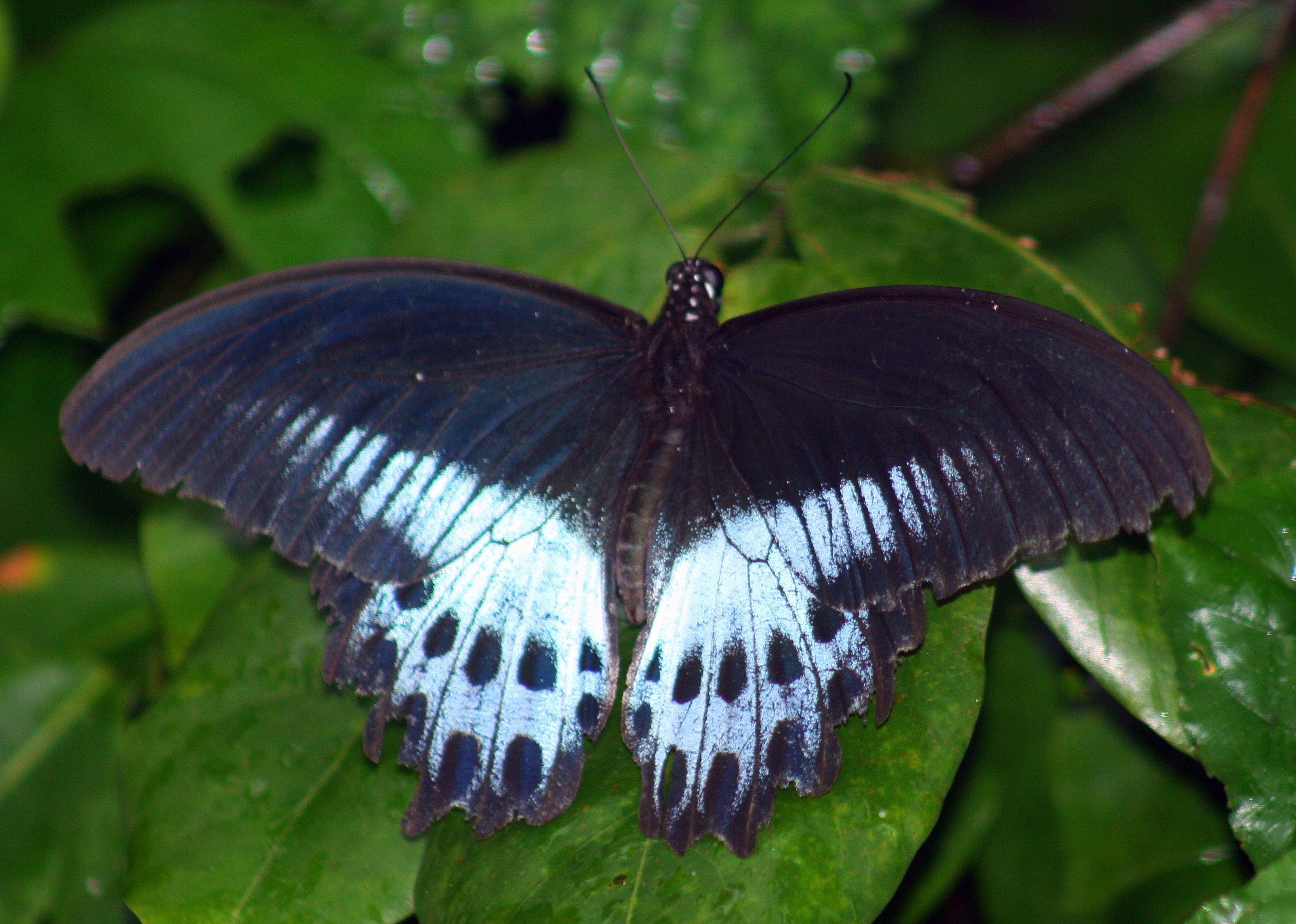 Its a state butterfly of Maharashtra, India